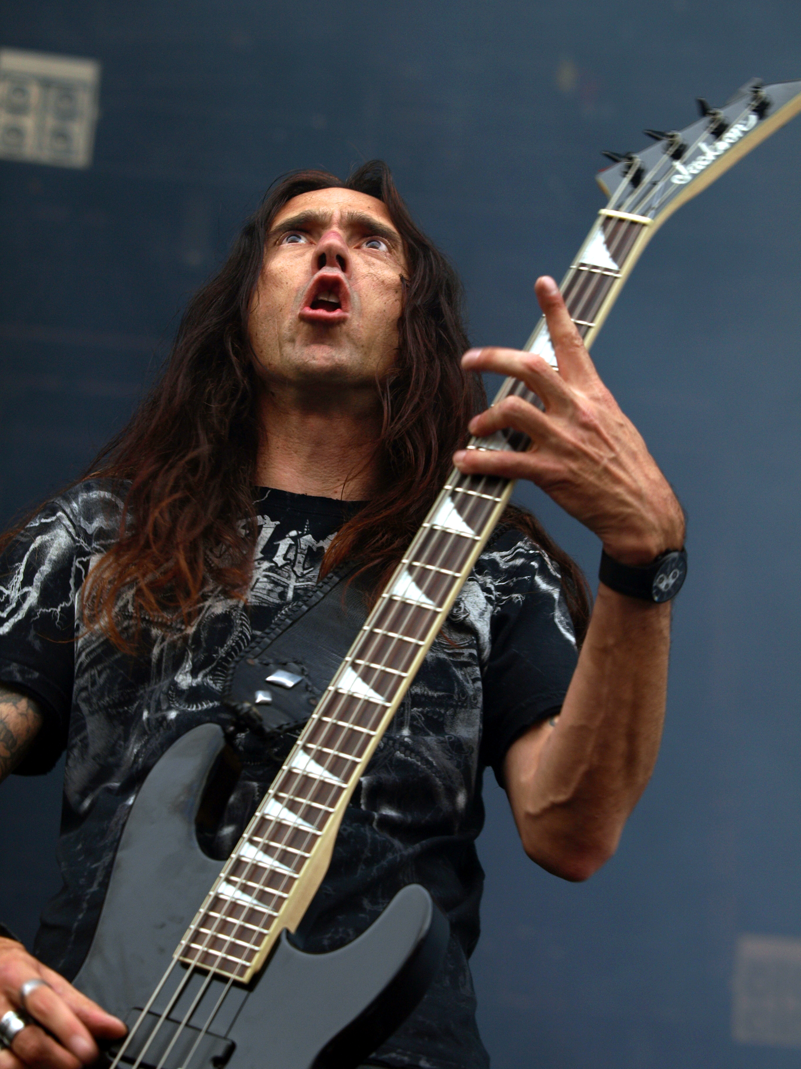 US-American thrash metal band Testament live at Tuska Open Air 2013